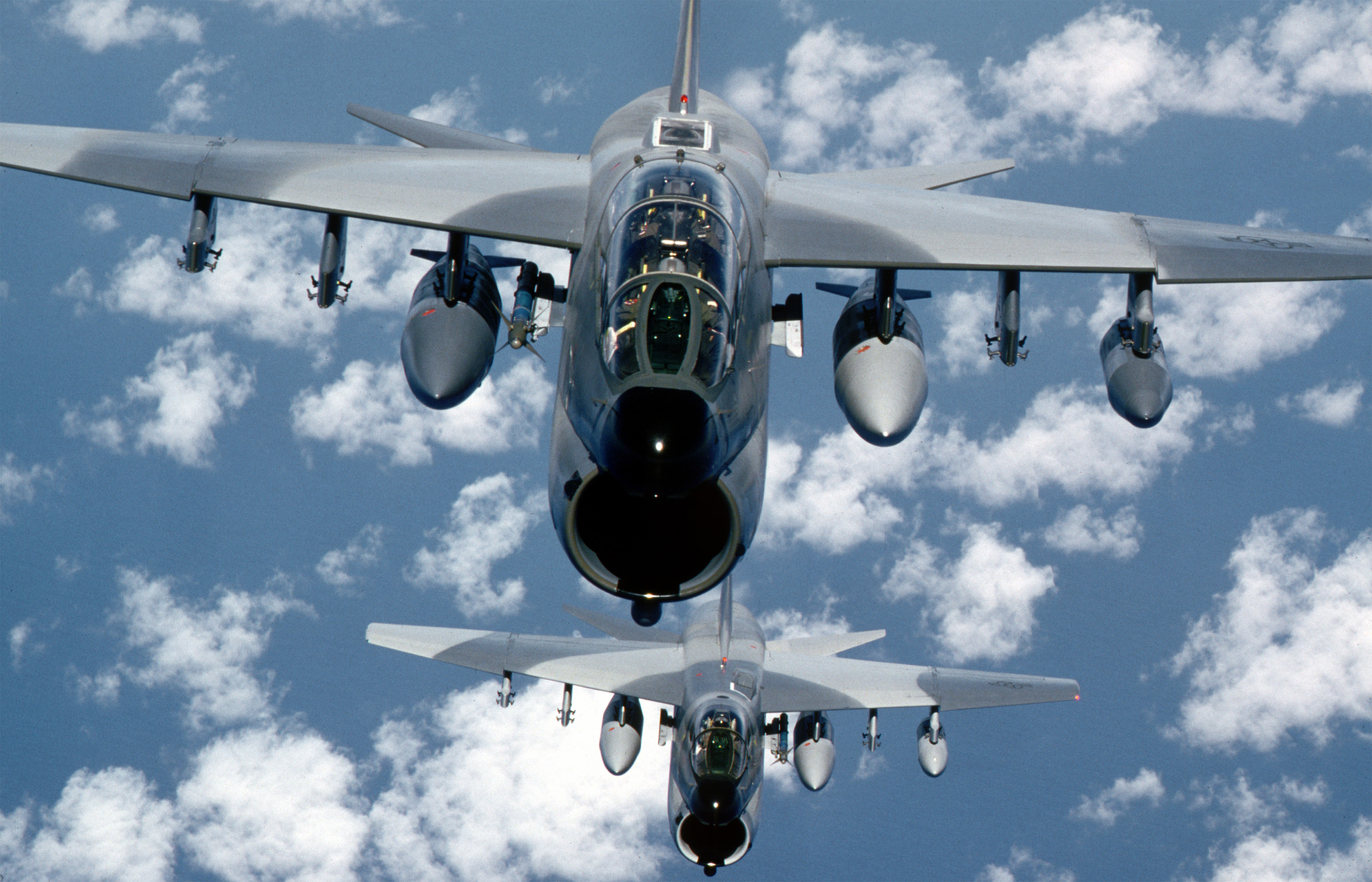 An air-to-air front view of a A-7K Corsair II aircraft from the 132nd Tactical Fighter Wing, Iowa Air National Guard and the 124th Tactical Fighter Squadron, en route to Chitose Air Base for Exercise Cope North '88-3.